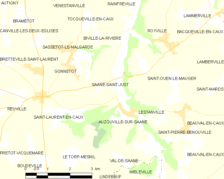 Map of French municipality Saâne-Saint-Just